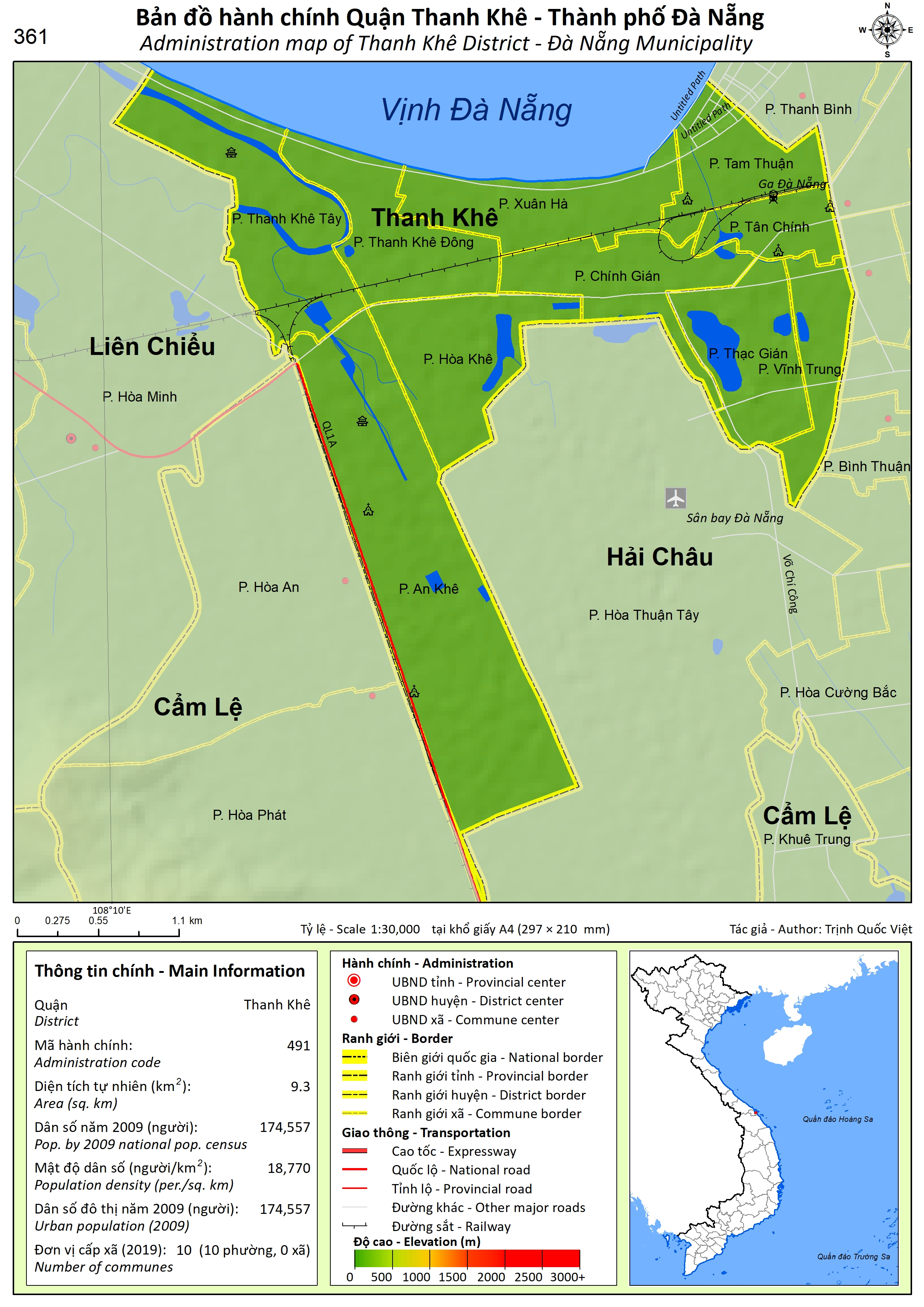 Administration map of Thanh Khe District, Danang City (new)